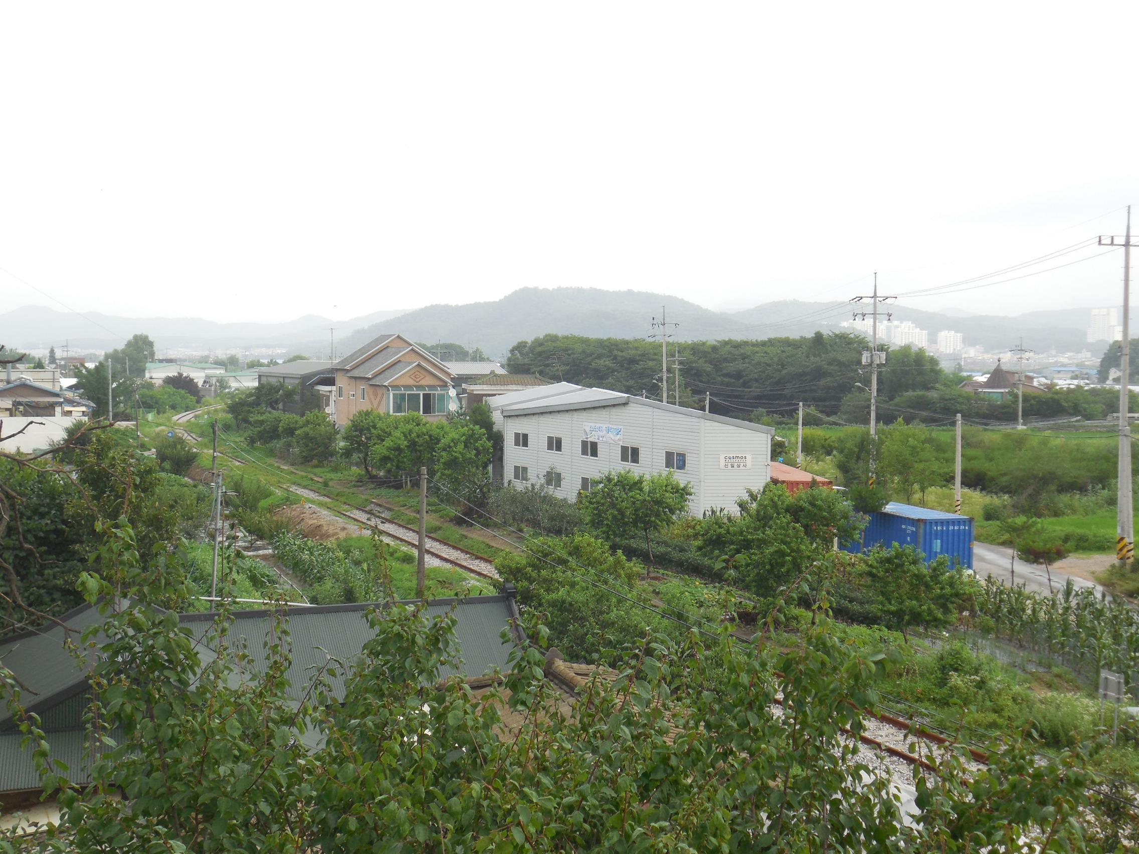 Korail Gyooe Line Samneung Station.